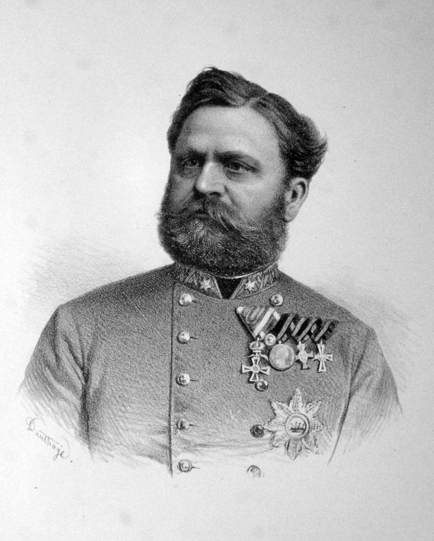 Julius von Horst (1830-1904) General, Minister of Defence, Politicien Lithograph by Adolf Dauthage